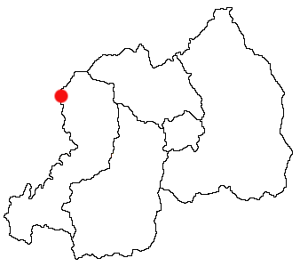 Gisenyi, Rwanda Location Map with 2006 provincial boundaries; created with the GIMP. Made by User:Acntx.